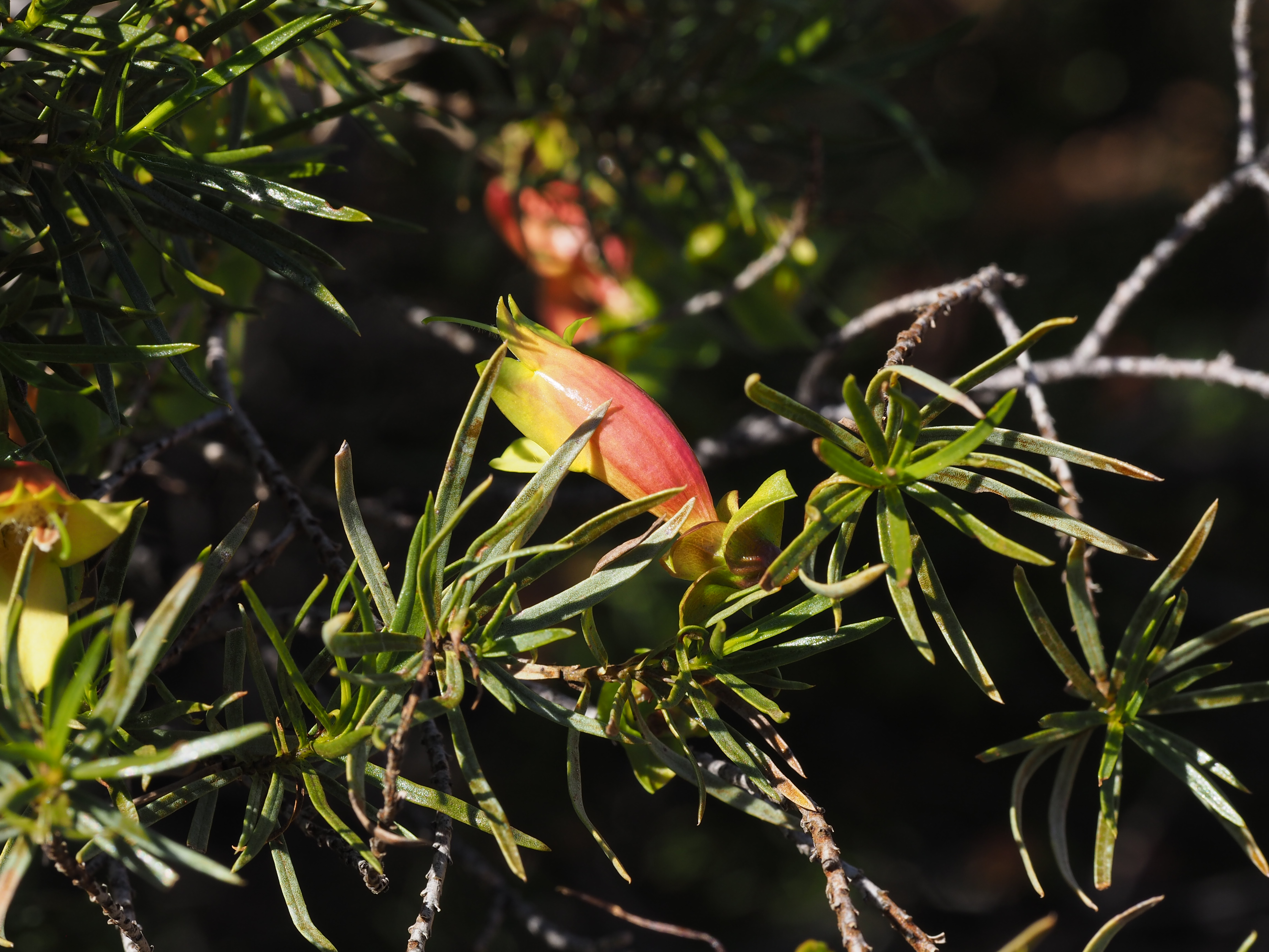 Eremophila linearis growing 36km south of Karalundi